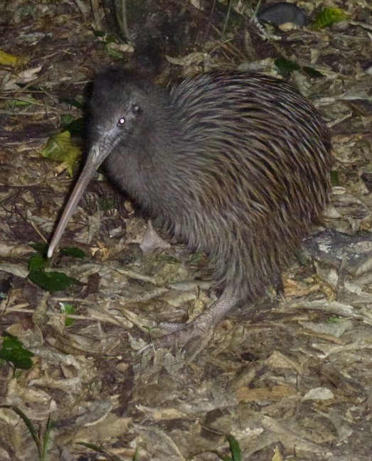 Okarito kiwi on Blumine Island